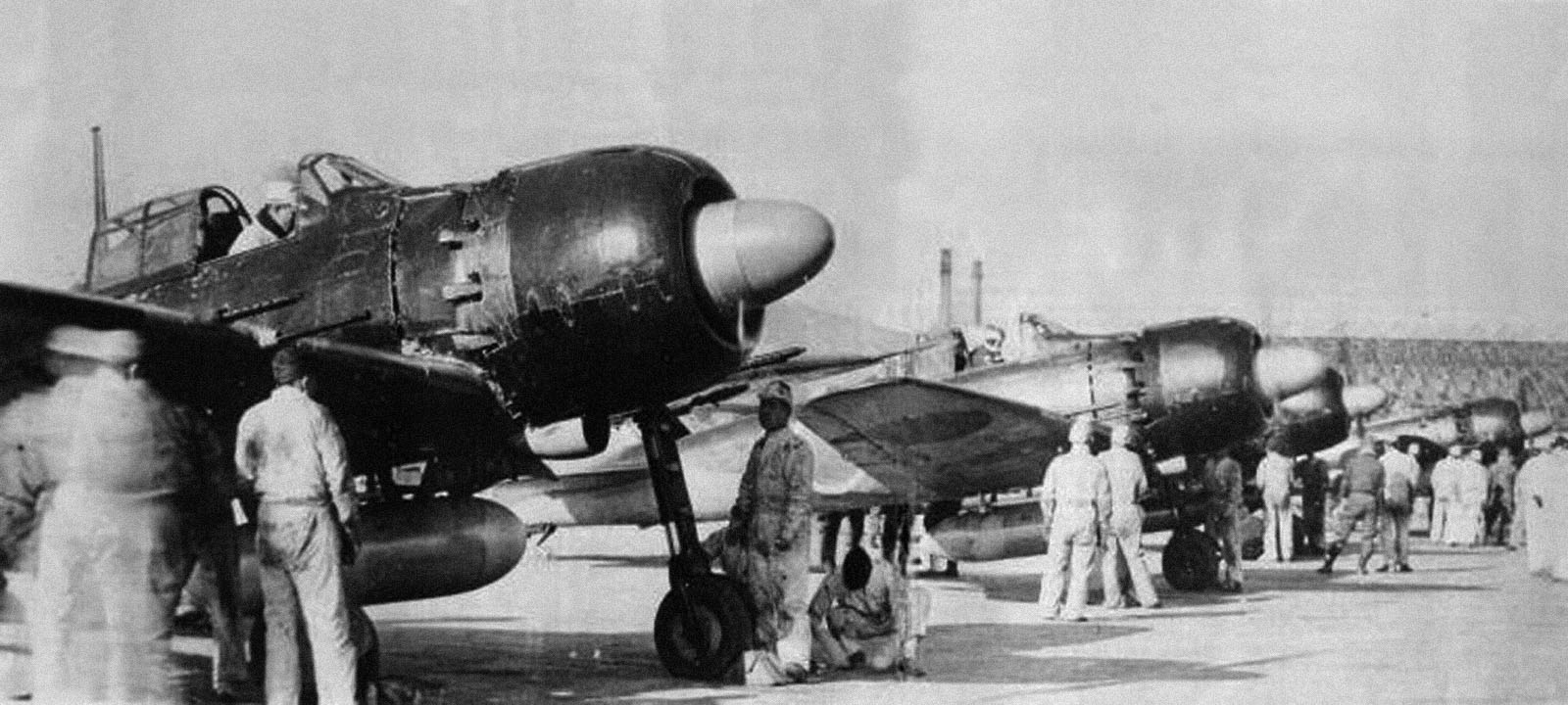 Mitsubishi Zero A6M5 Model 52c are sent back from Korea to Kyushû island, to take part in a Kamikaze attack (early 1945).